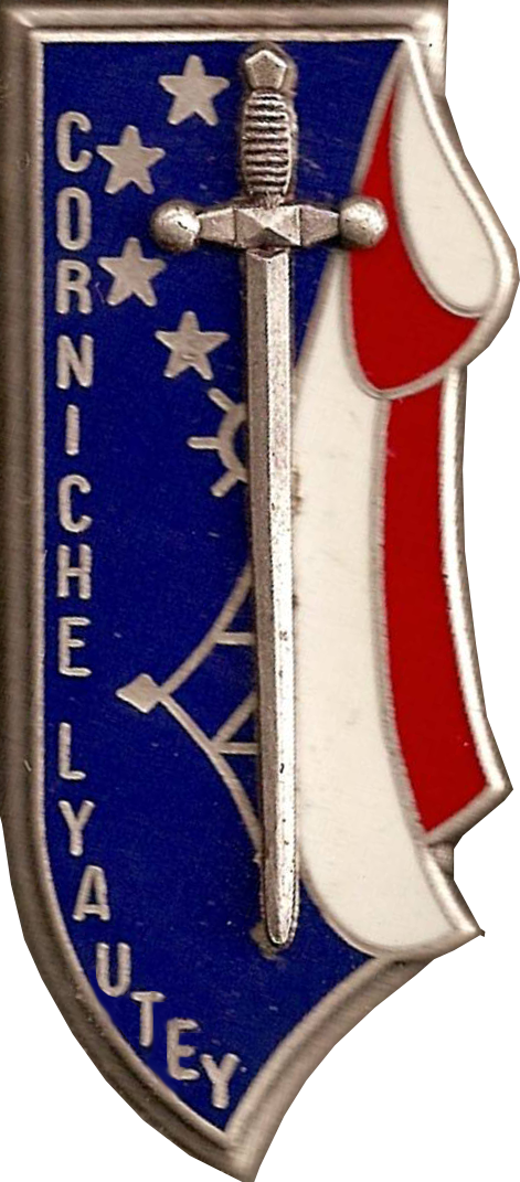 Logo of the Corniche Lyautey